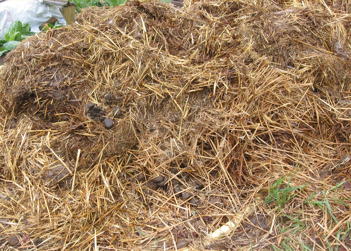 Horse manure.